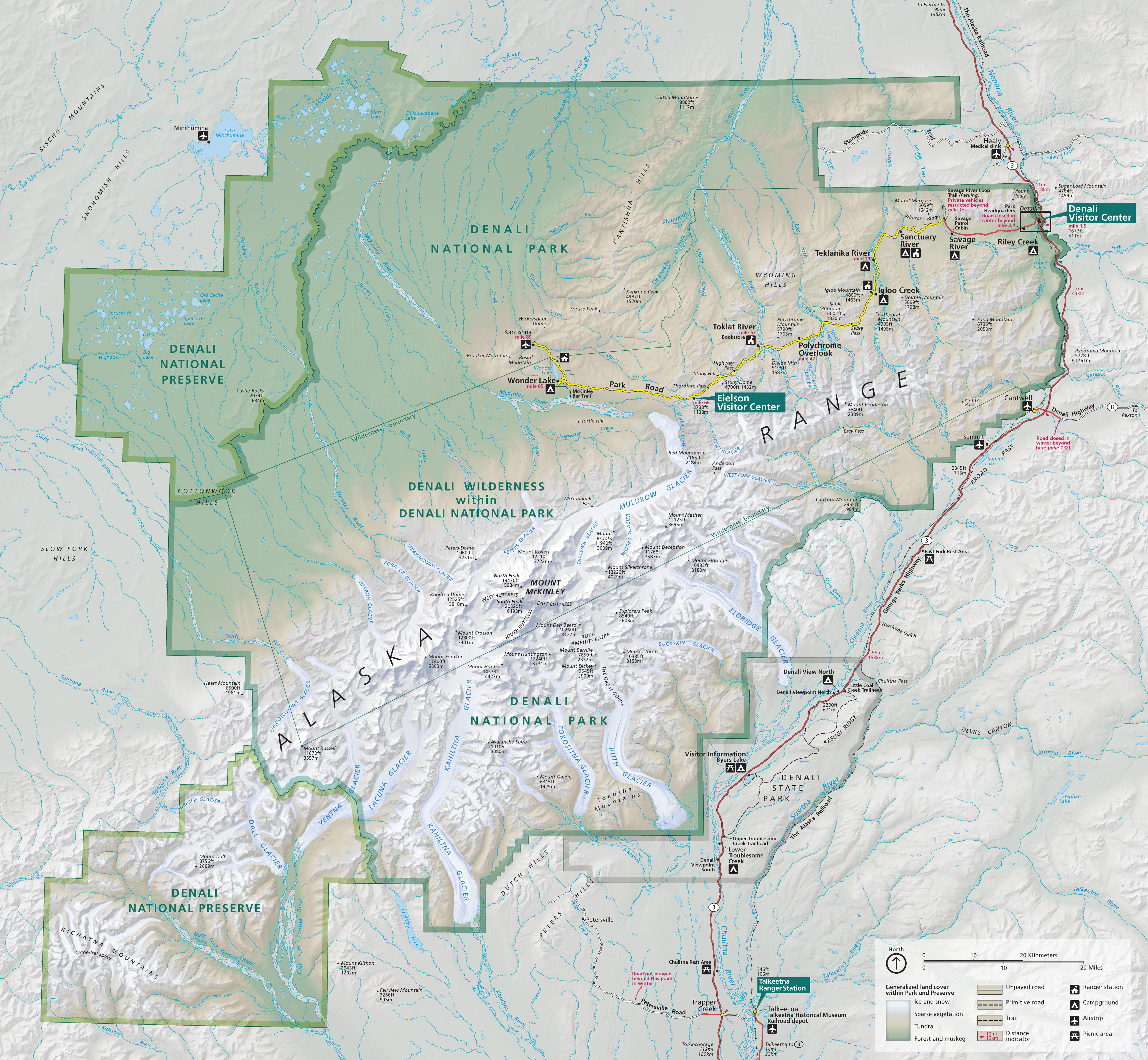 This map was created by Tom Patterson at the Harpers Ferry Center.